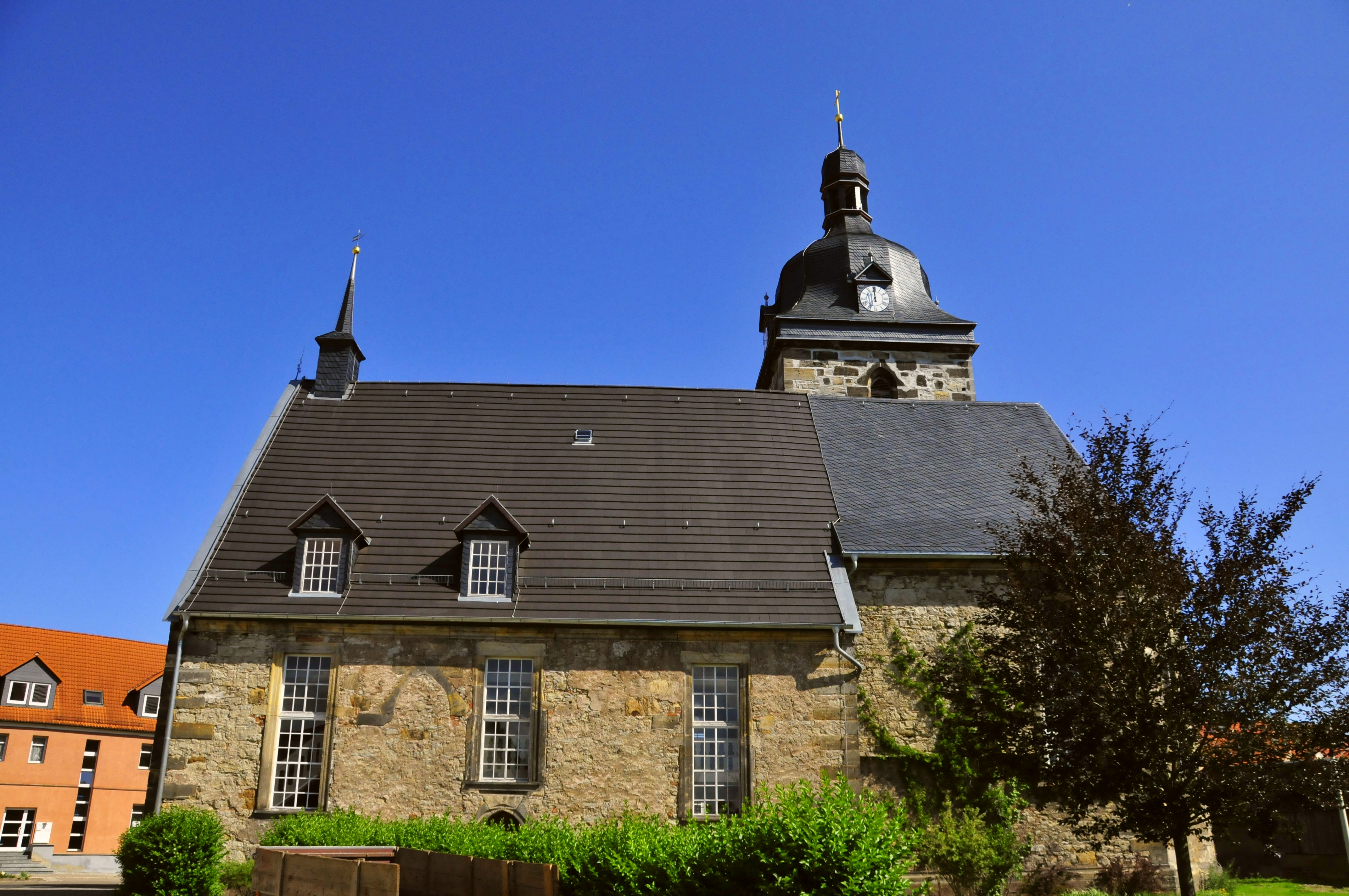 Church in Hohenkirchen (Thuringia)